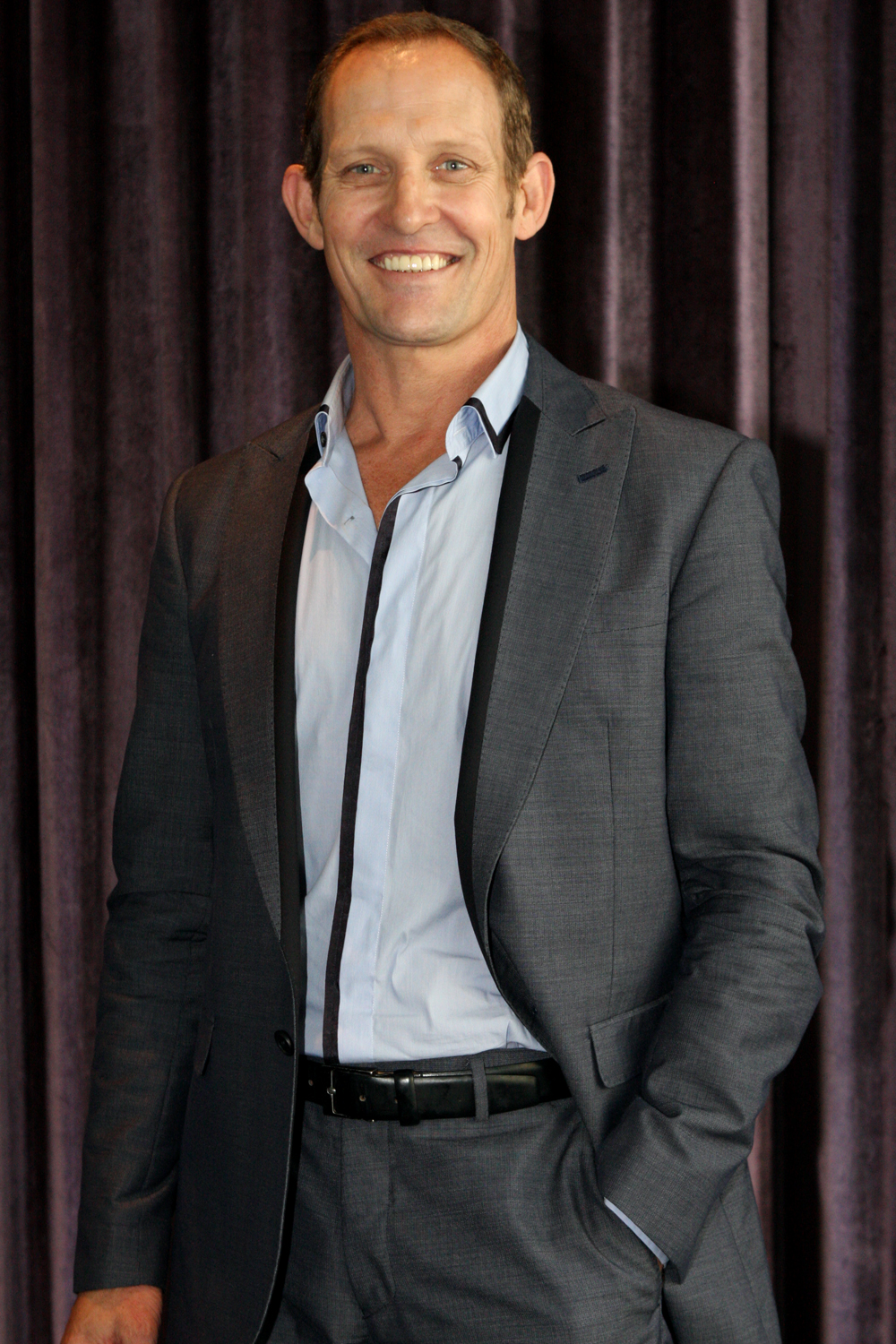 GREASE: The No.1 Party Musical media event at Hard Rock Cafe, Darling Harbour, Sydney, Australia - 24th March 2013 Today there was a media call at Hard Rock Cafe, Sydney, for the popular musical GREASE. Producer John Frost announced lead cast members and organised one on one interviews with cast and crew. The “Greased Lightning” 1962 Studebaker was parked outside the venue. GREASE is the Number One Party musical, featuring all the unforgettable songs from the hit movie including You’re The One That I Want, Grease Is The Word, Summer Nights, Sandy, Hopelessly Devoted To You, Greased Lightnin’ and many more. Promo... The No.1 Party Musical GREASE is returning to Australia in a new multi-million dollar production. It’s got groove, it’s got meaning and it’s burning up the quarter mile! Packed with explosive energy and with an all-star cast, GREASE returns to the Australian stage in a live production that’s truly ELECTRIFYIN’! Since the show’s Broadway premiere in 1972 and the 1978 hit movie starring John Travolta and Olivia Newton-John – which went on to become the highest grossing movie-musical of all time – GREASE has triumphed across the globe, with its irresistible mix of adolescent angst, vibrant physicality and 1950s pop culture. Featuring dazzling costumes and all those unforgettable songs from the movie, including: Summer Nights, Sandy, Hopelessly Devoted to You, You’re The One That I Want, Greased Lightnin’, and Grease is the Word, GREASE really is “fast, furious and thrilling, an injection of raw energy… and fun, fun, fun!” (The Daily Mirror, UK) So get ready to dust off your leather jackets, pull on your bobby-socks and take a trip to a simpler time as “bad boy” Danny and “the girl next door” Sandy fall in love all over again. Websites Grease musical official website Hard Rock Cafe, Sydney Eva Rinaldi Photography Music News Australia